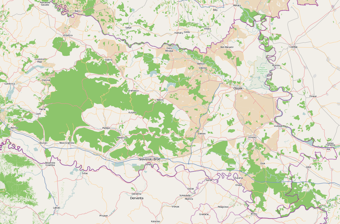 Map of geographical region of Slavonia